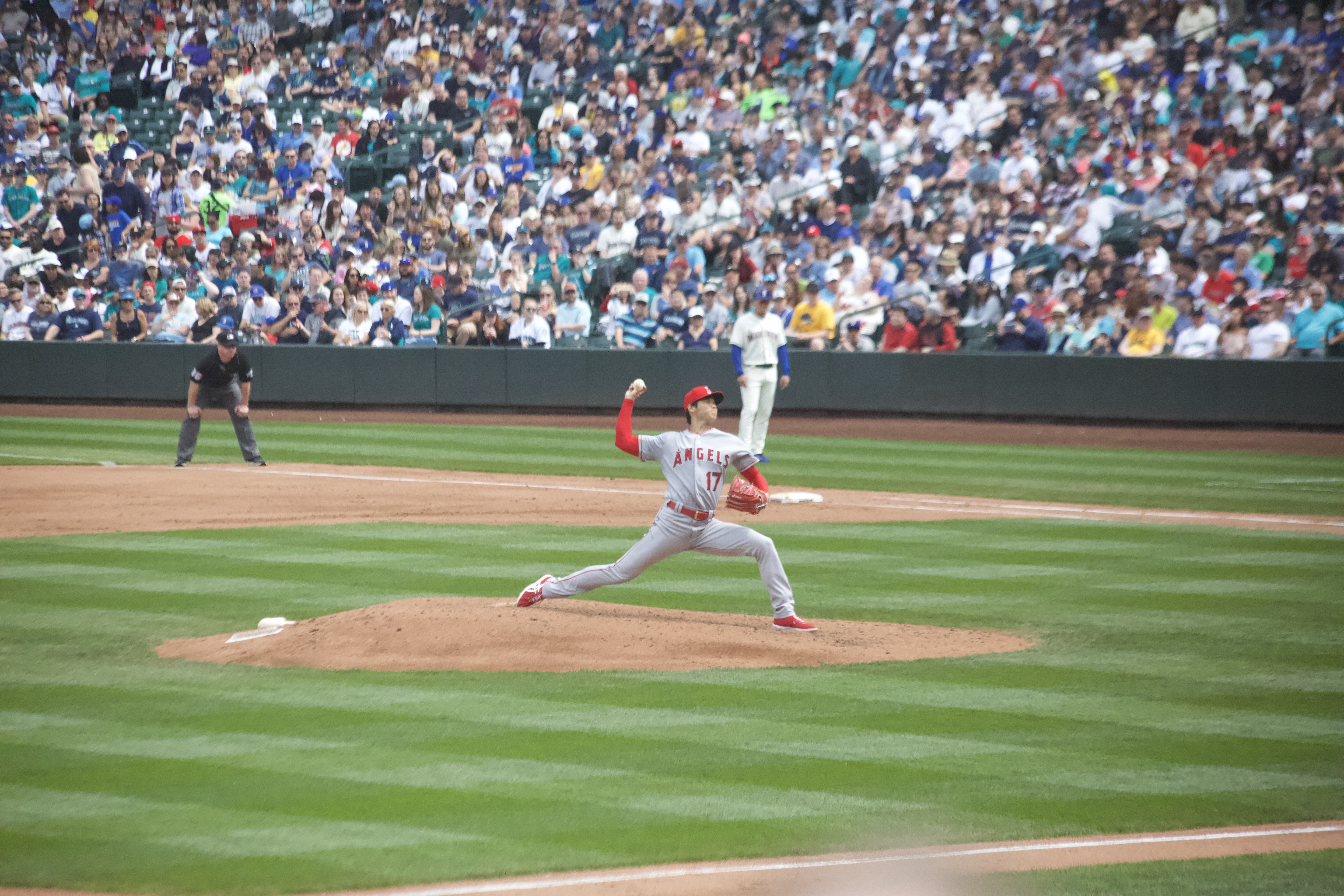 Long day for Mariners fans, and a big day for Shohei Ohtani.